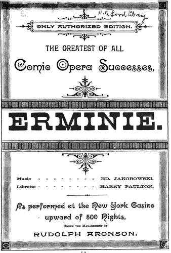 Cover page to libretto of Erminie: "The greatest of all comic opera successes, Erminie, as performed at the New York Casino upward of 500 nights, under the management of Rudolph Aronson Only authorized ed. Music [by] Ed. Jakobowski, libretto [by] Harry Paulton Published 1887 in New York .